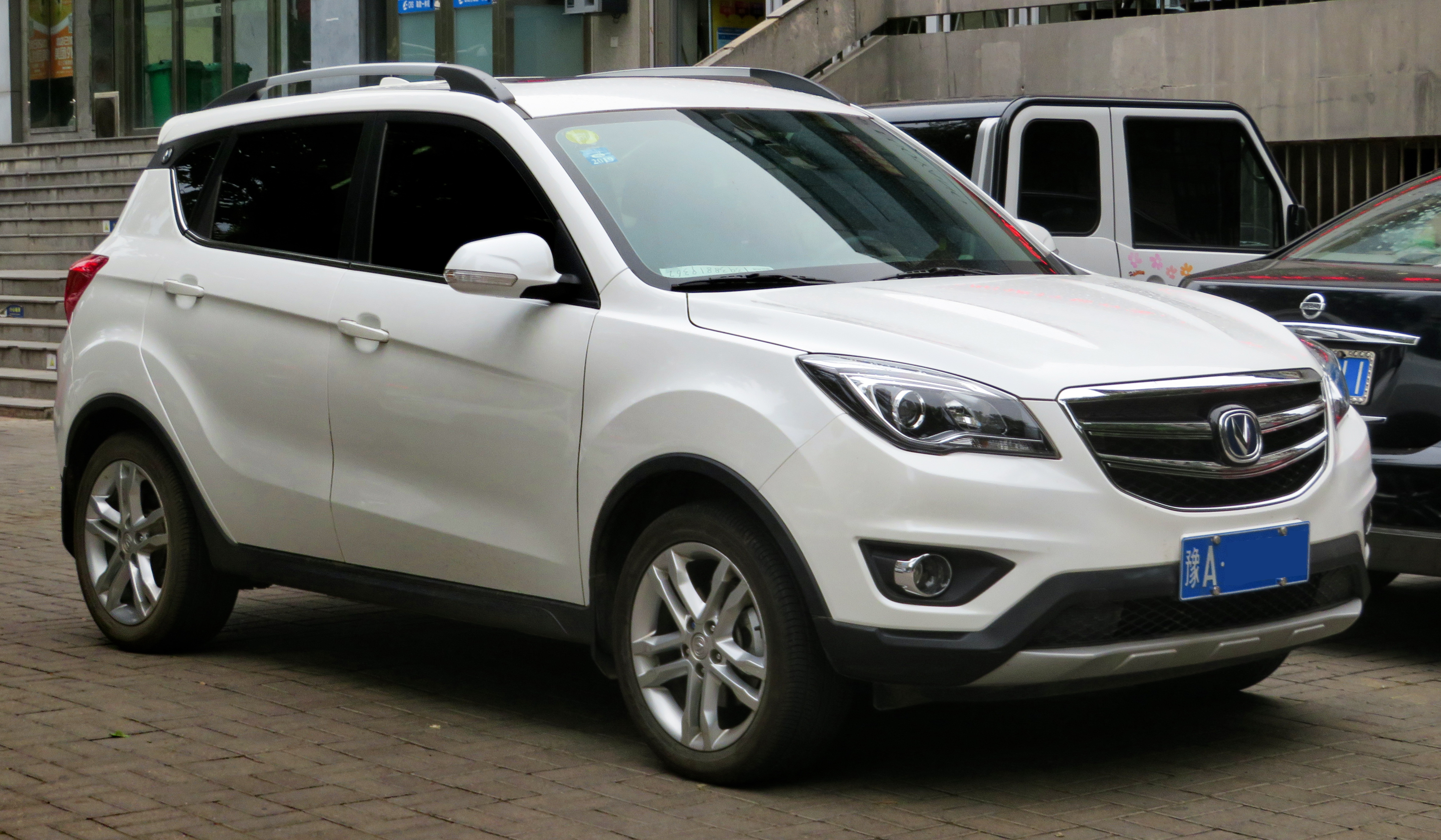 A 2018 Chang'an CS35 facelift photographed in Xigong District, Luoyang, Henan province, China